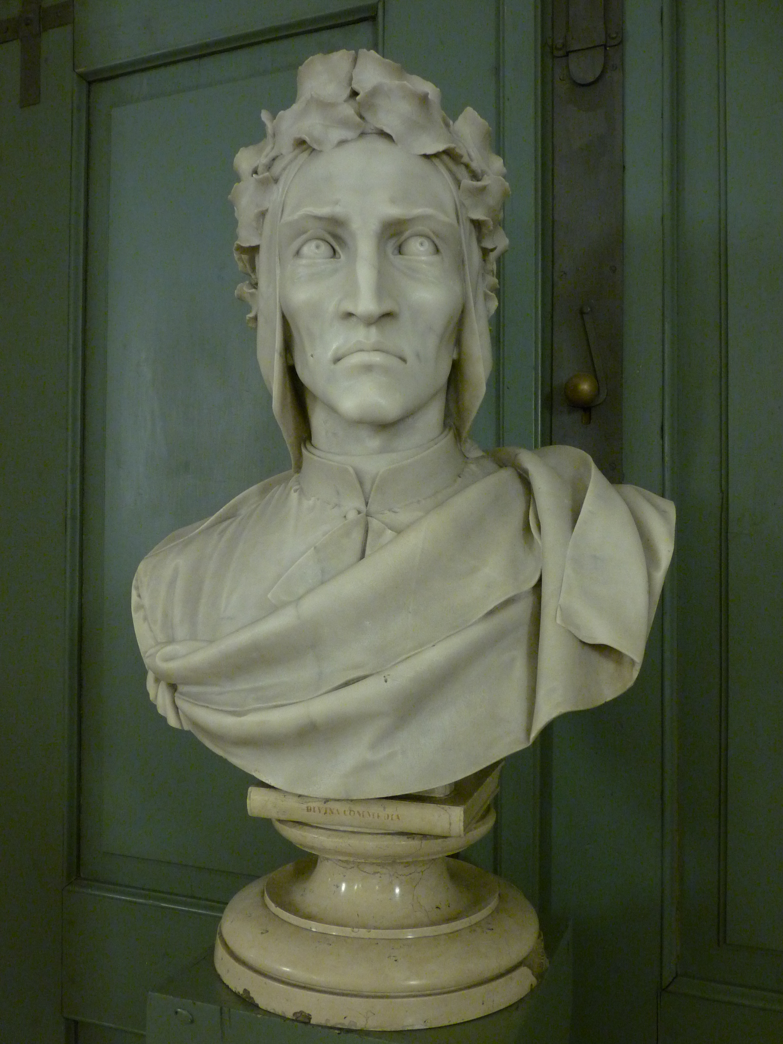 Trento (Italy): bust of Dante Alighieri by Andrea Malfatti (in the public library). Three quarters right view